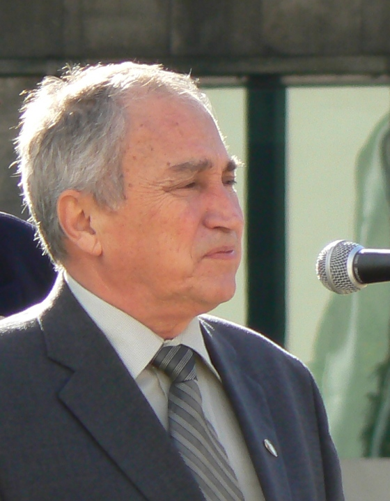 Bulgarian physicist Academician Nikola Sabotinov